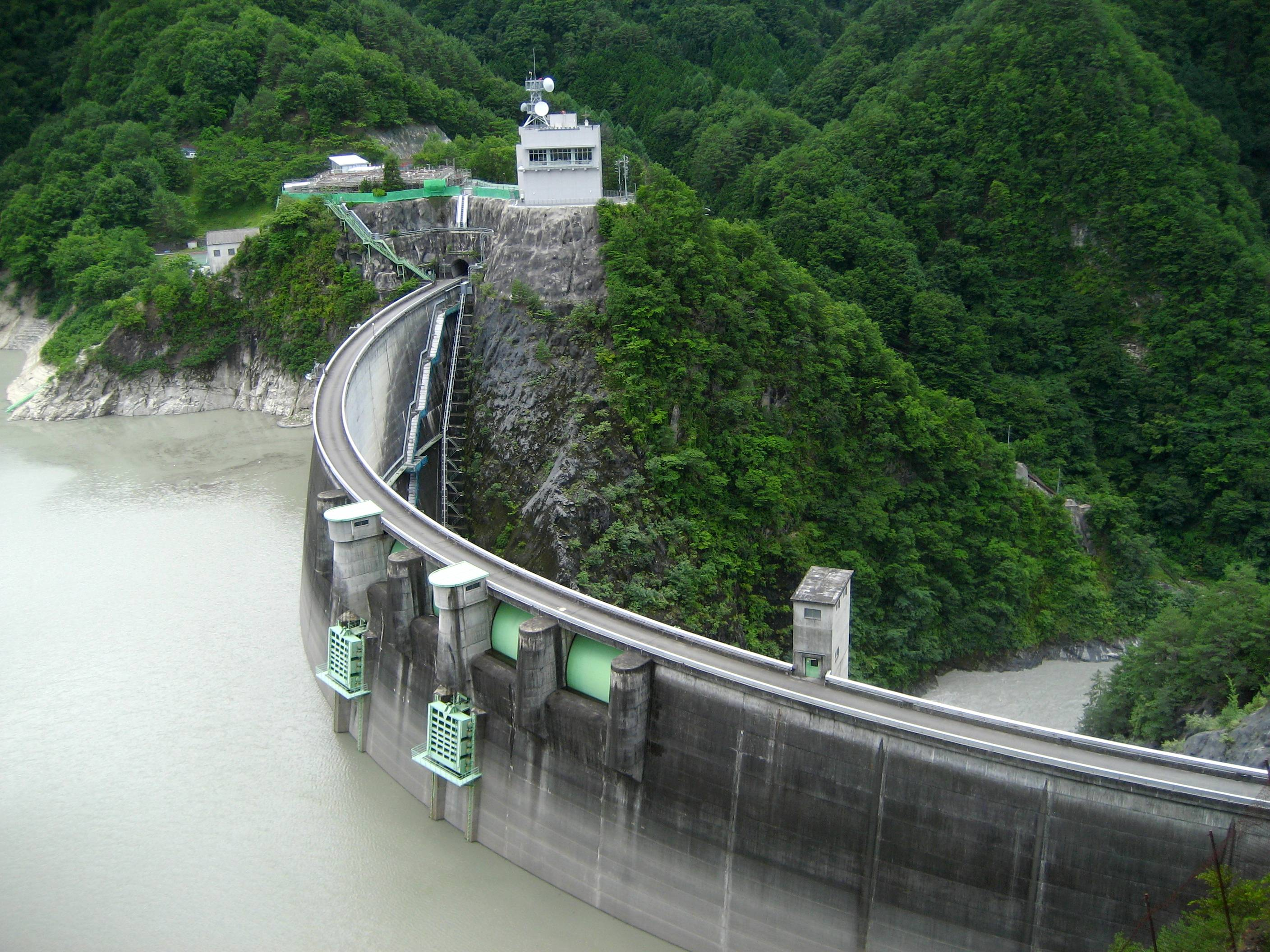 Koshibu Dam (小渋ダム) in between Matsukawa Town and Nakagawa village, Nagano prefecture, Japan.